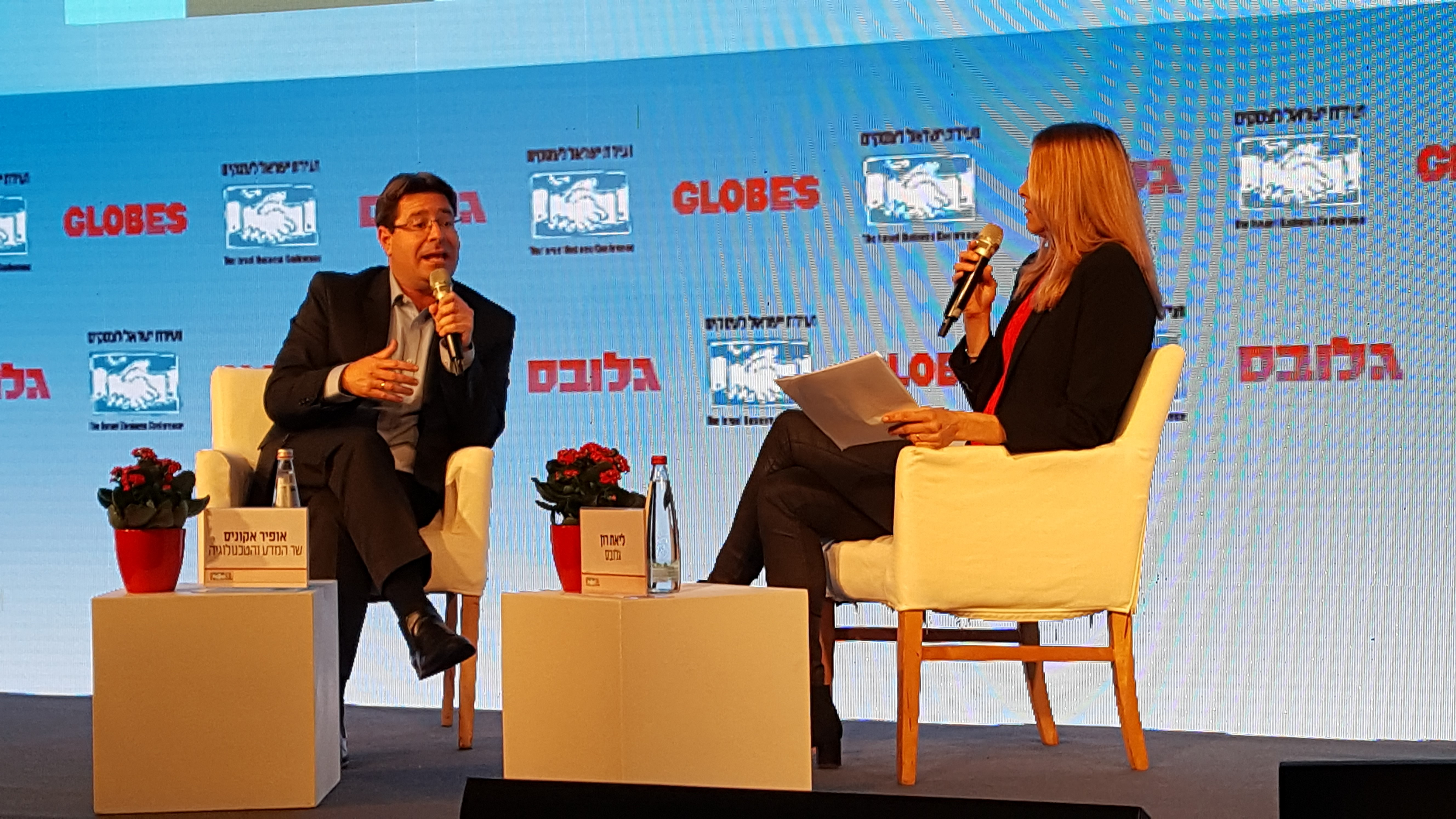 Israel Business Conference 2016